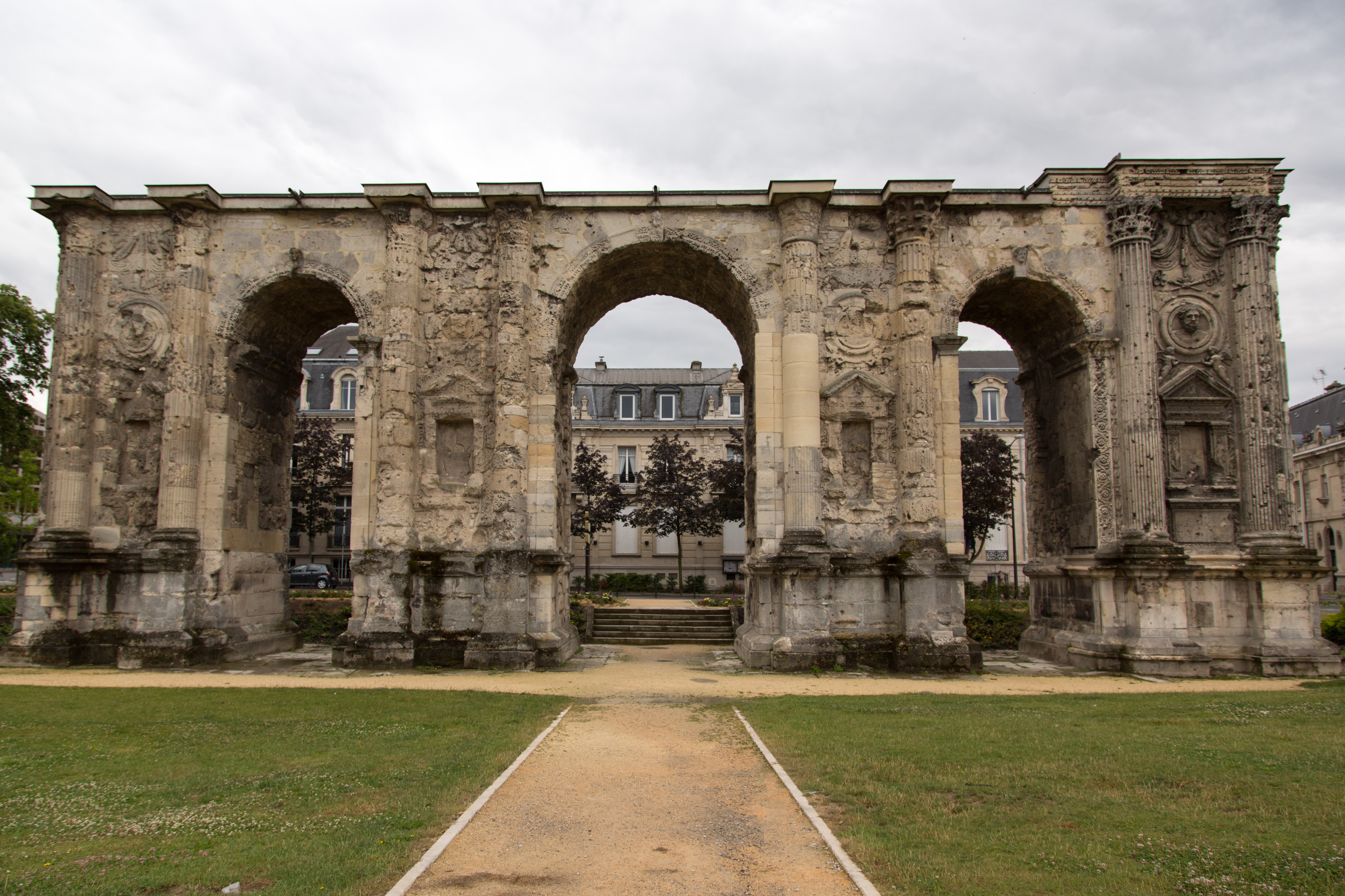 Porte Mars Arch, Reims, France